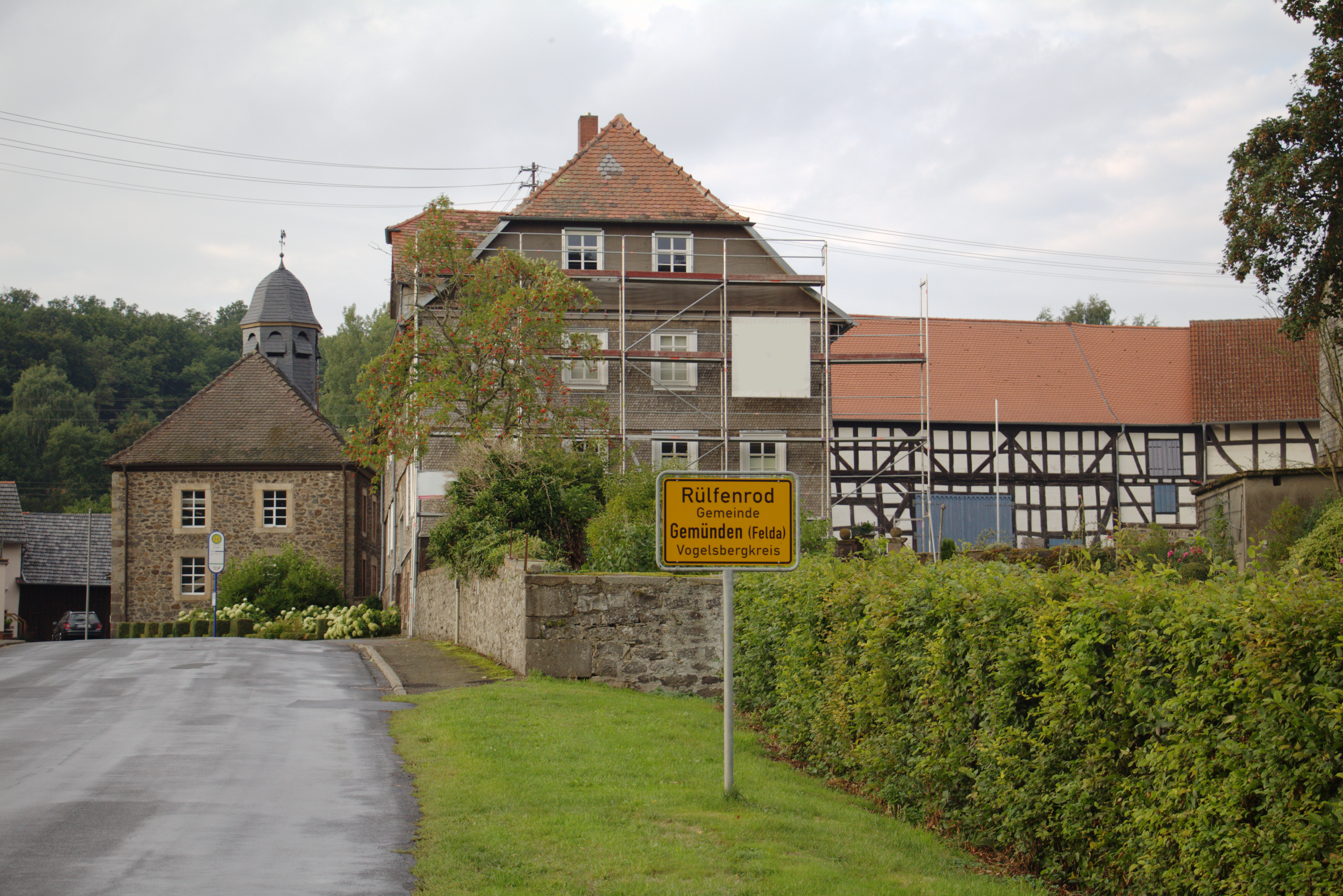 Buildings in Ruelfenrod Ehringshaeuser Strasse 1 / Gemünden (Felda) / Hesse / Germany